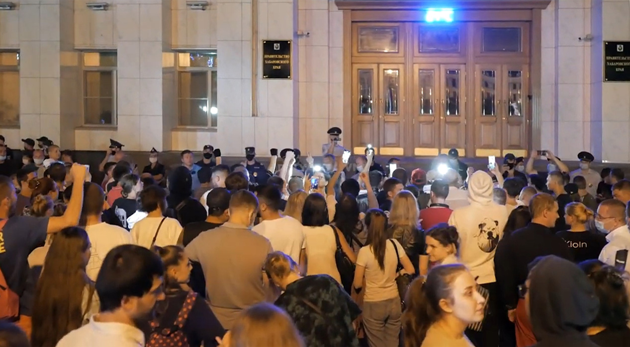 Demonstration in support of Governor Sergey Furgal in Khabarovsk